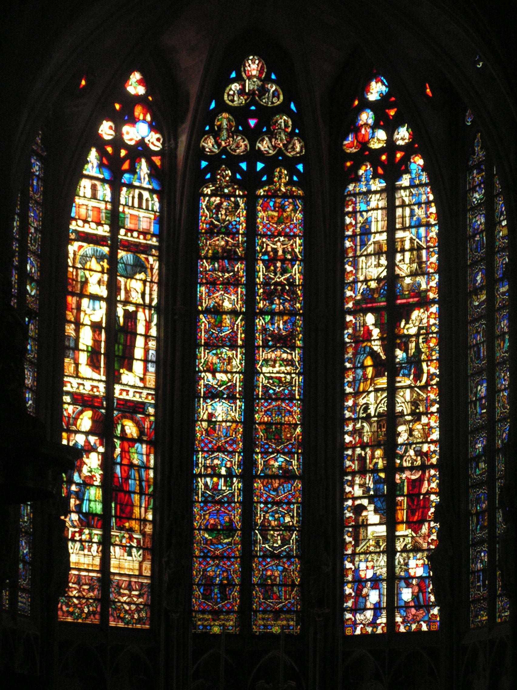 Basilica of St. Nazaire and St. Celsus, Carcassonne